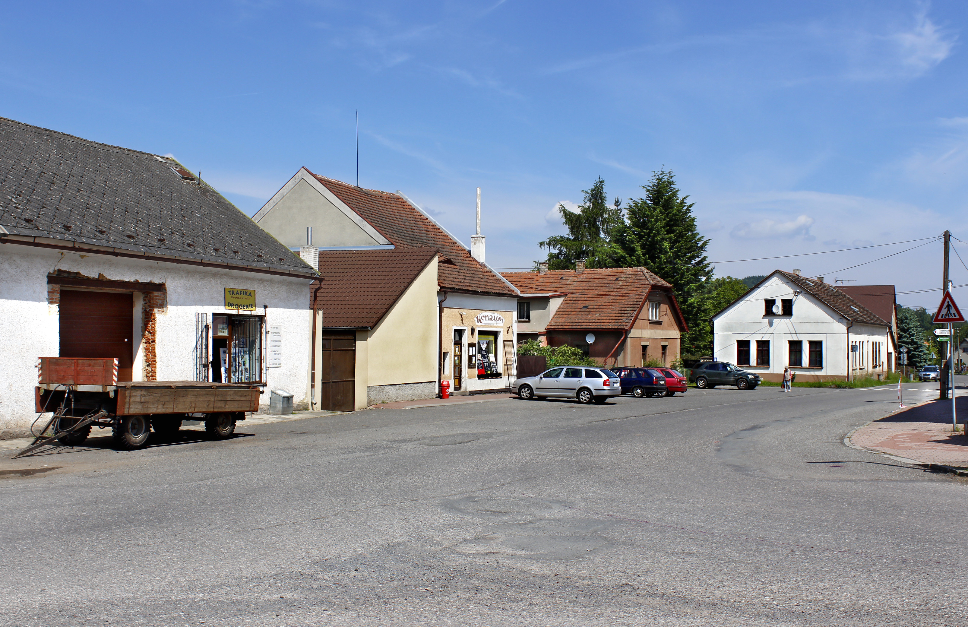 Upper common in Zaječov, Czech Republic